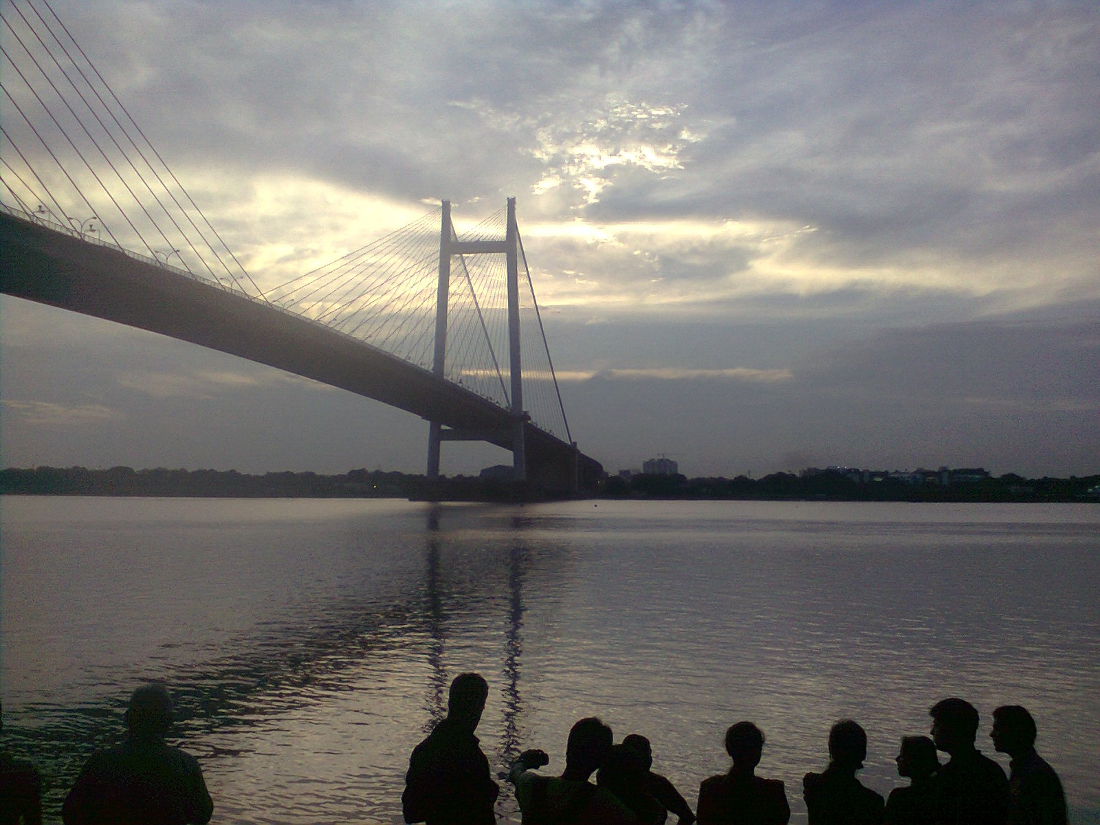 Prinsep Ghat. Picture taken 08-07-2012